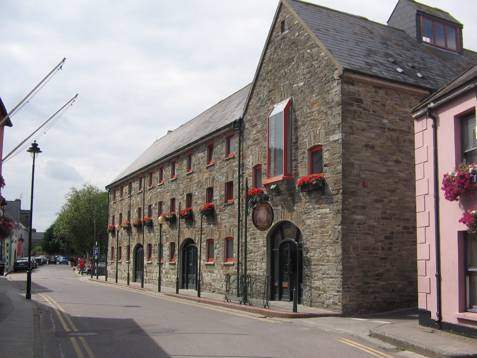 Town of Clonakilty in Ireland. Library from the front site.